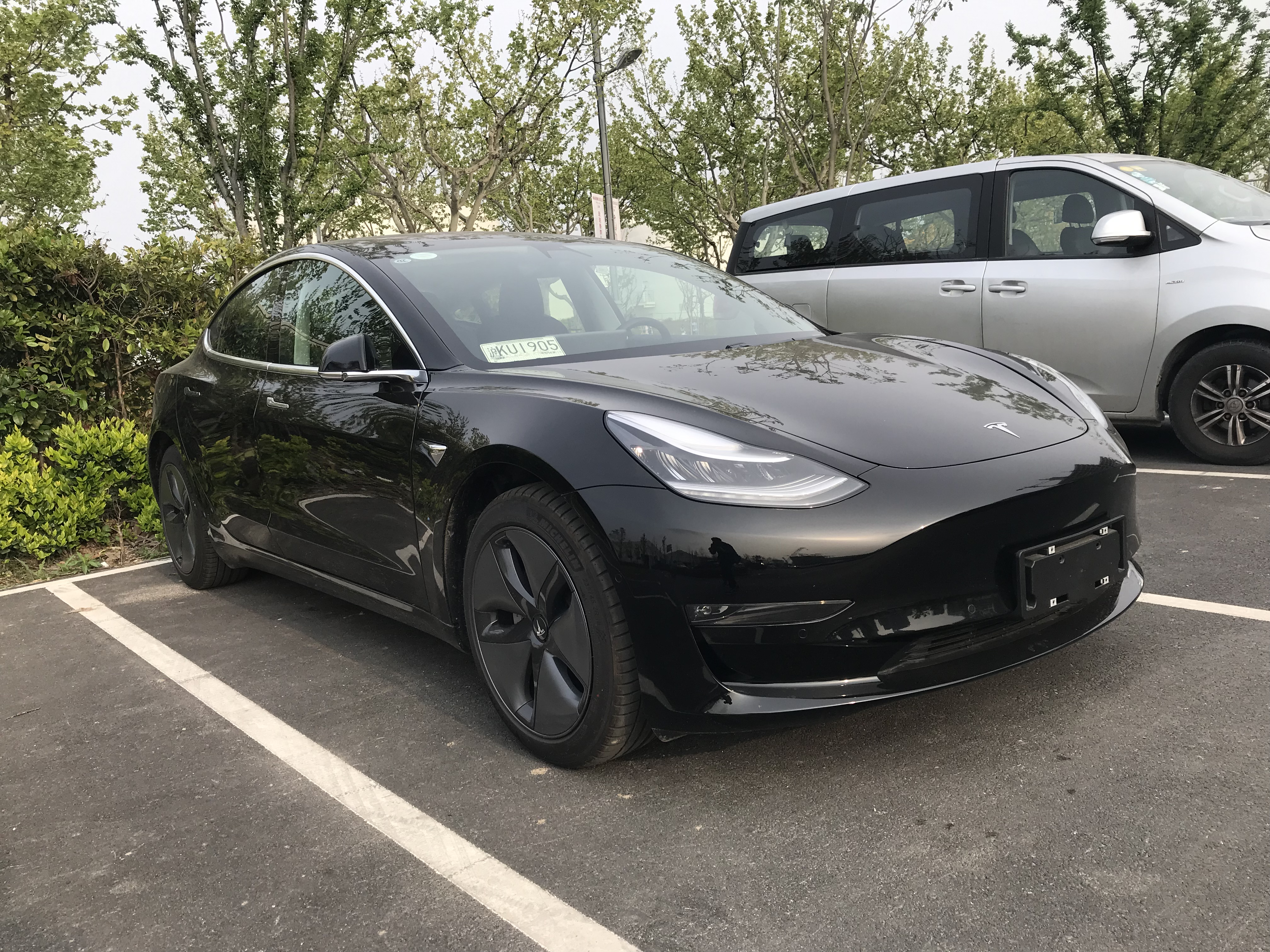 Tesla Model 3 China